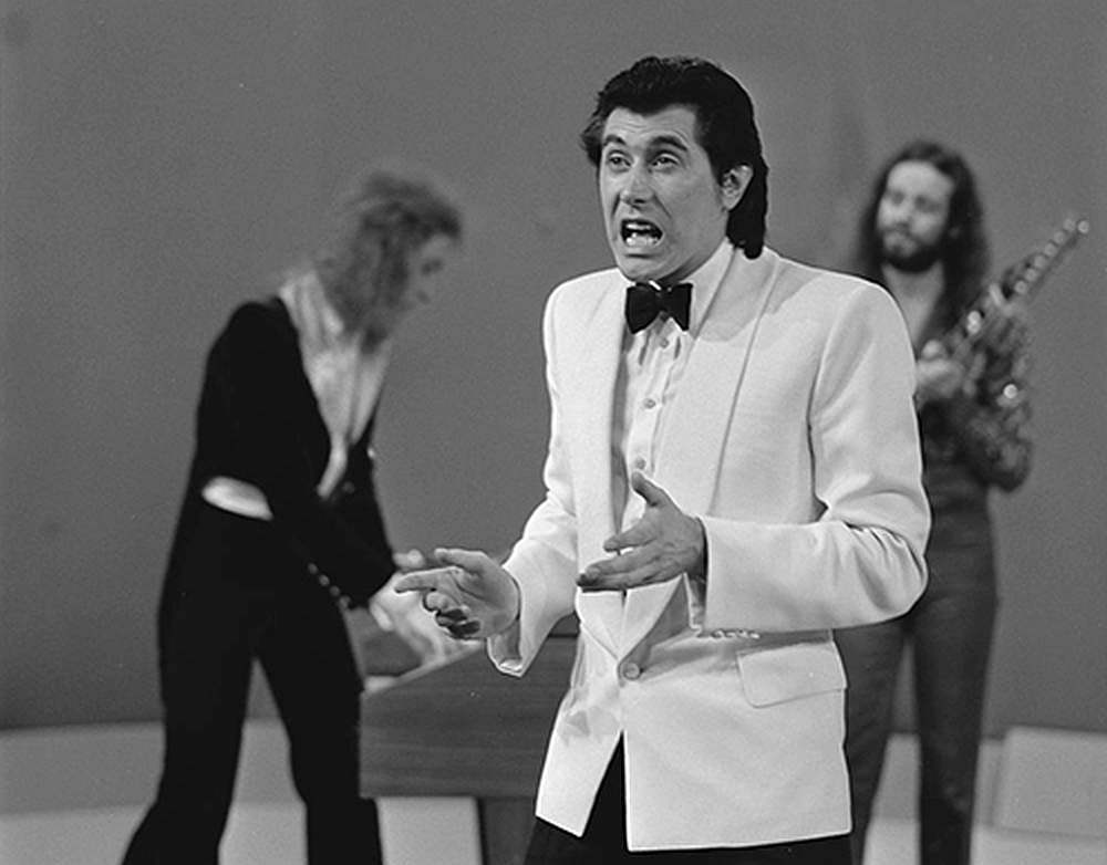 Bryan Ferry (Roxy Music) in AVRO's TopPop (Dutch television show) in 1973 Cropped to focus